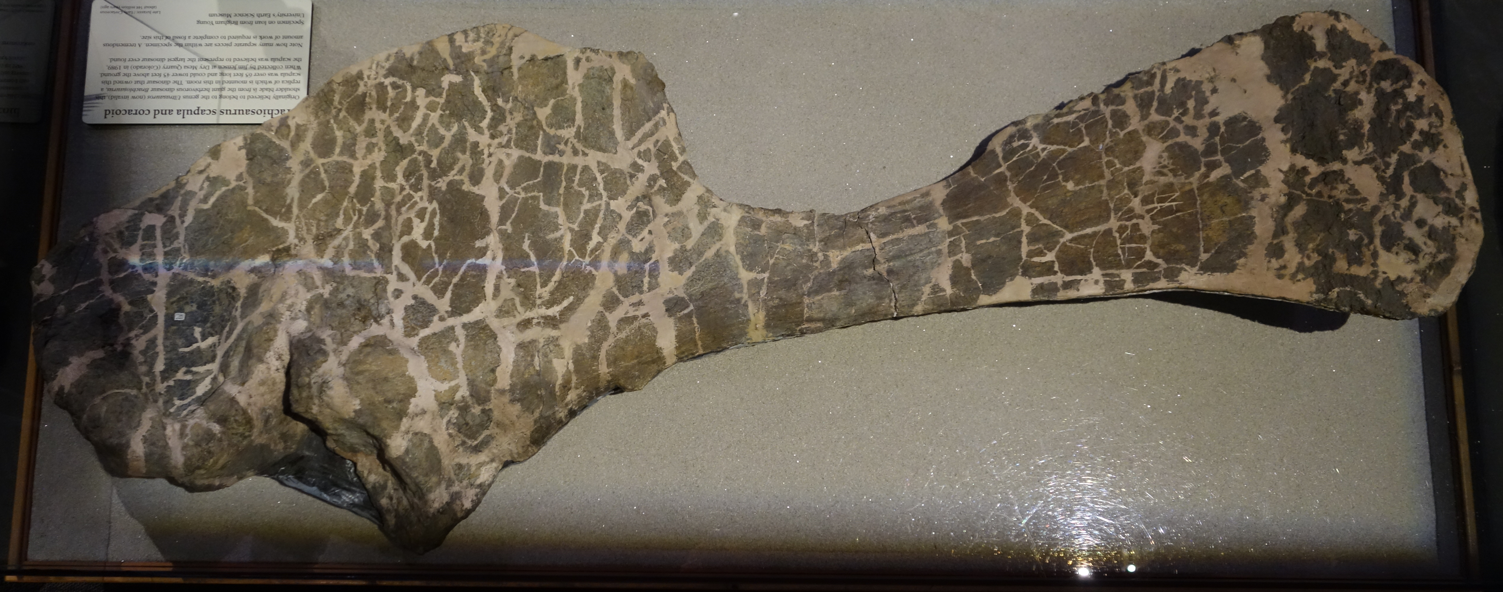 Scapulocoracoid of Brachiosaurus (original), on display at the Museum of Ancient Life, Utah. Originally Ultrasauros, and discovered in 1989 in Dry Mesa Quarry, Colorado.